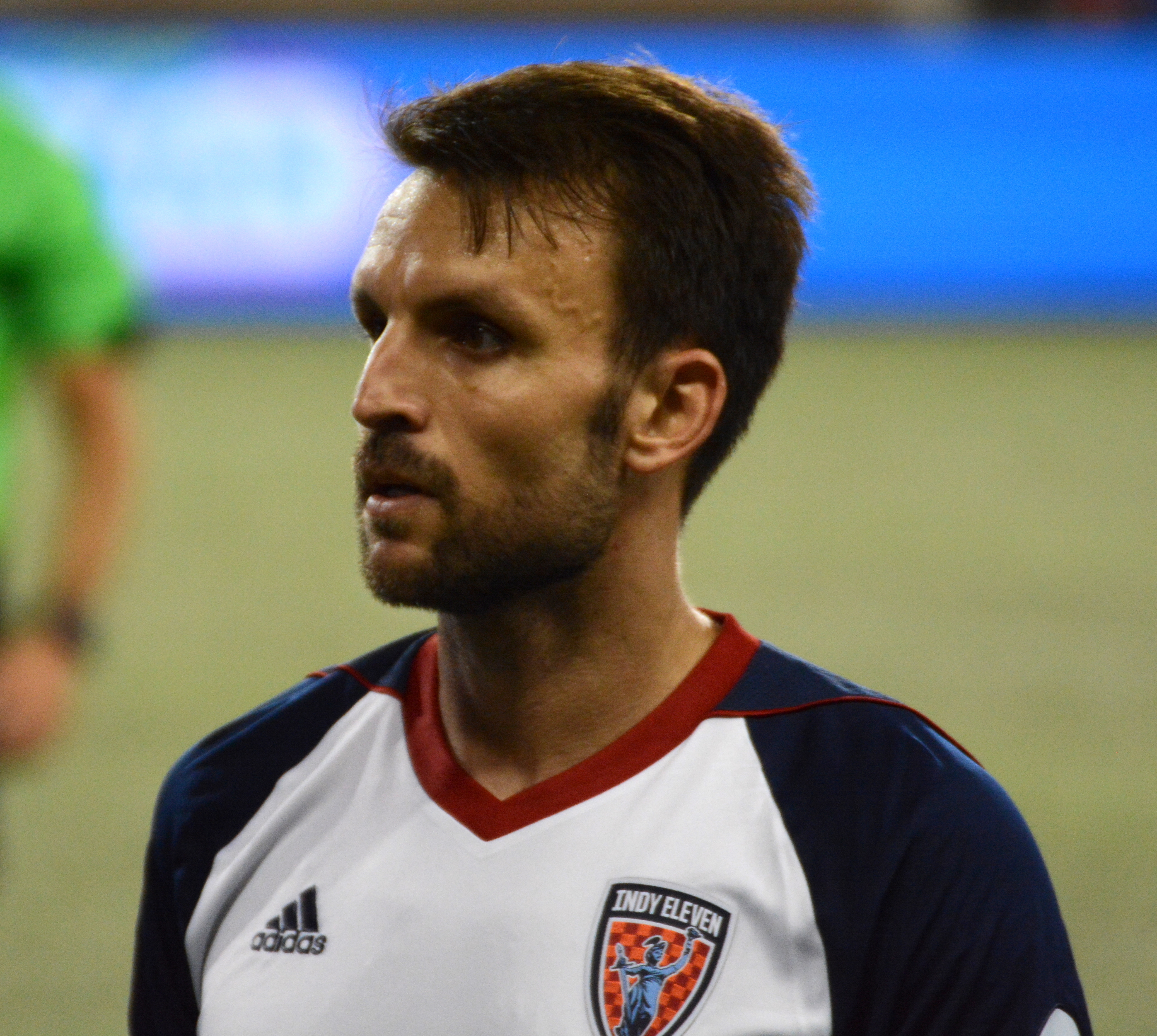 Taken during a USL regular season match between FC Cincinnati and Indy Eleven at Nippert Stadium in Cincinnati, USA on September 29, 2018.